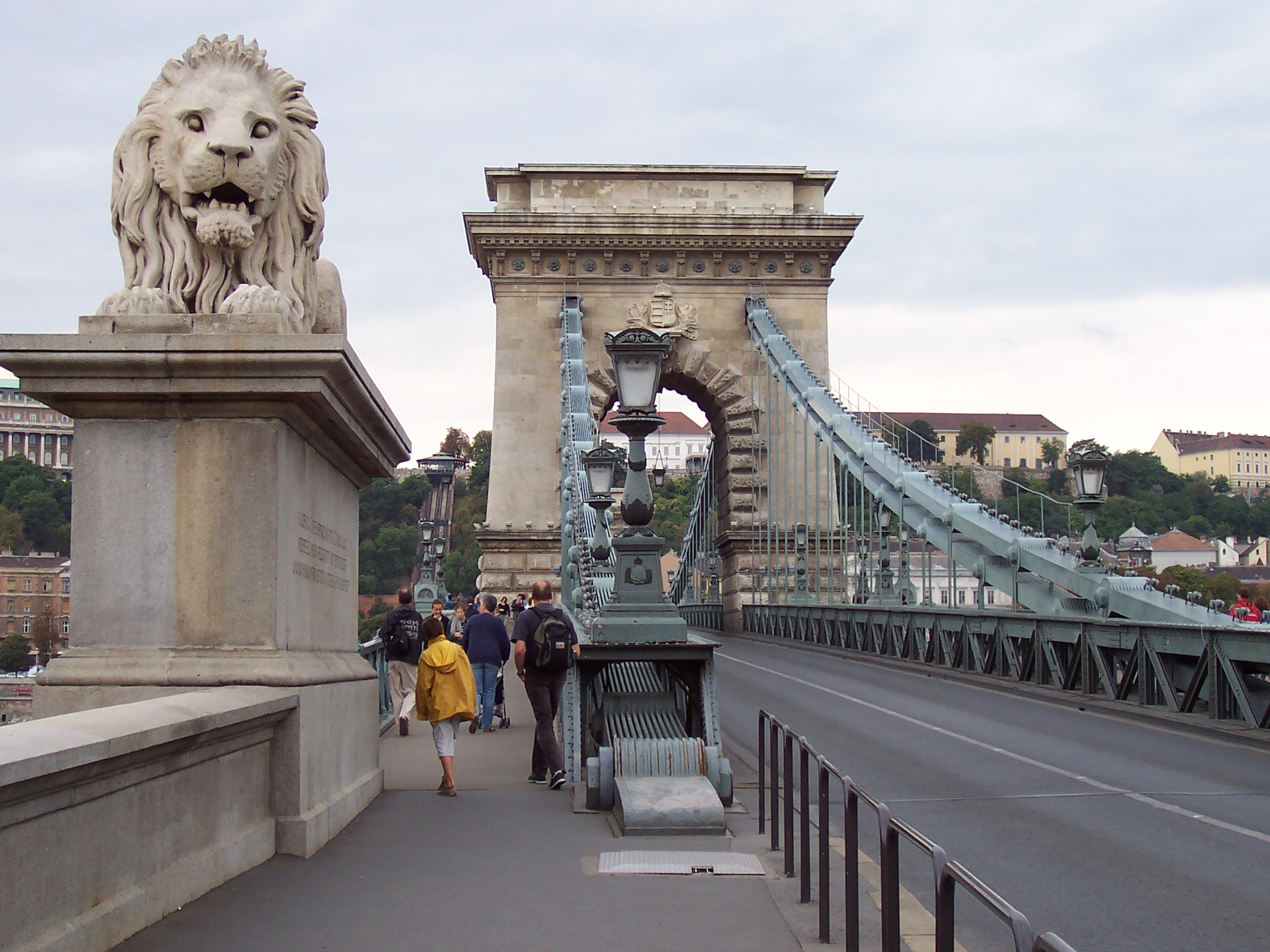 Chain bridge Source photographed by myself Photographer Pier Luigi Mora Date 22 August 2004 Camera Data Camera Kodak CX6330 zoom digital camera